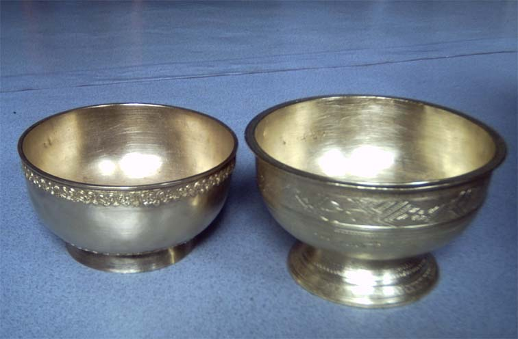 Sasanggan, a bronze bowl used by the Banjarese during a traditional ceremony.